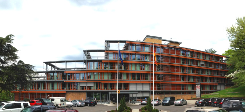 Embassy of the Federal Republic of Germany in Washington, DC. April 2015